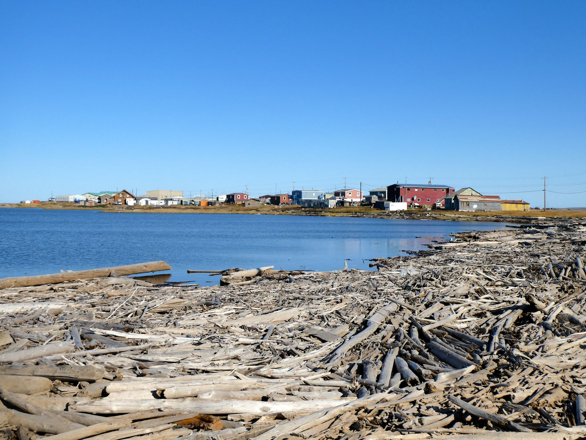 Another section of town along the shore